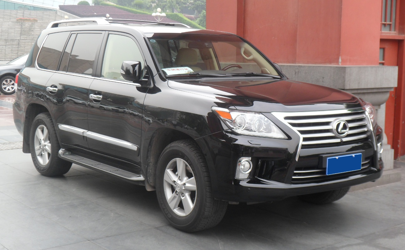 Lexus LX J200 facelift photographed in Chongqing, China.